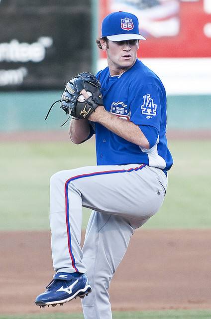 Chris Withrow pitching for the Inland Empire 66ers in 2009